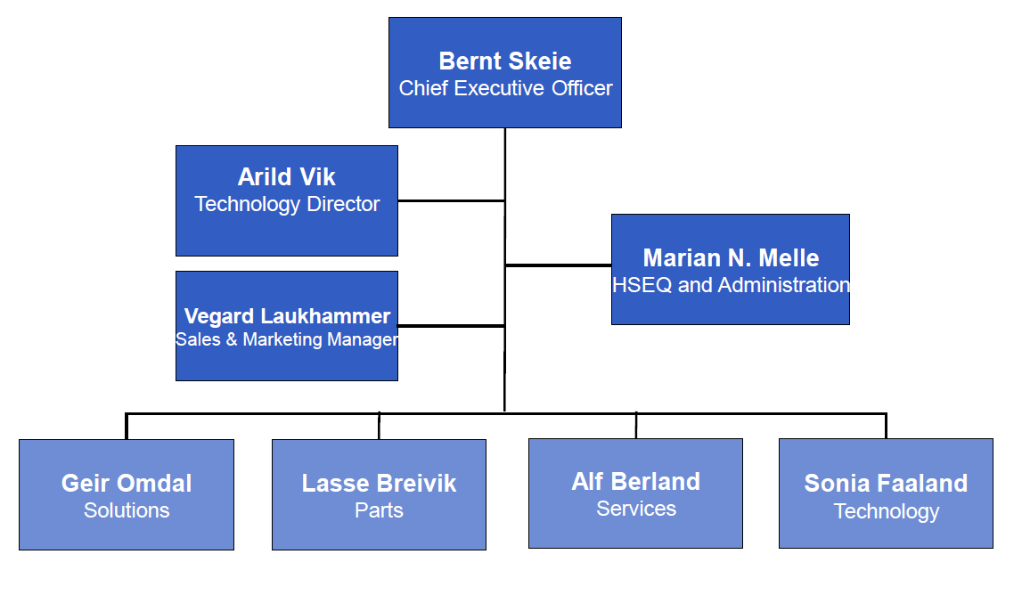 The CMR Prototech organizationNorsk bokmål: CMR Prototech sitt organisasjonskart